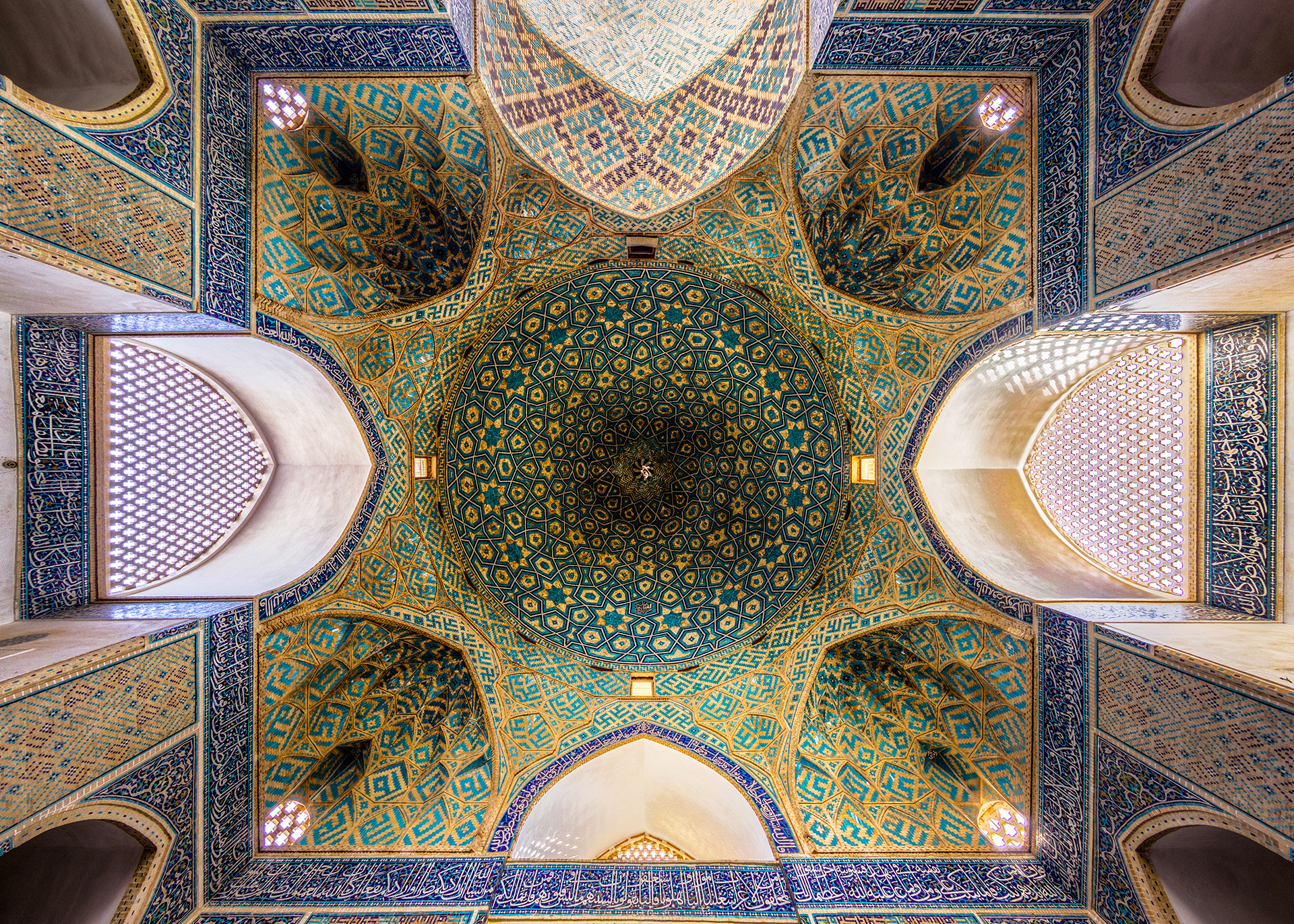 Jameh mosque of Yazd